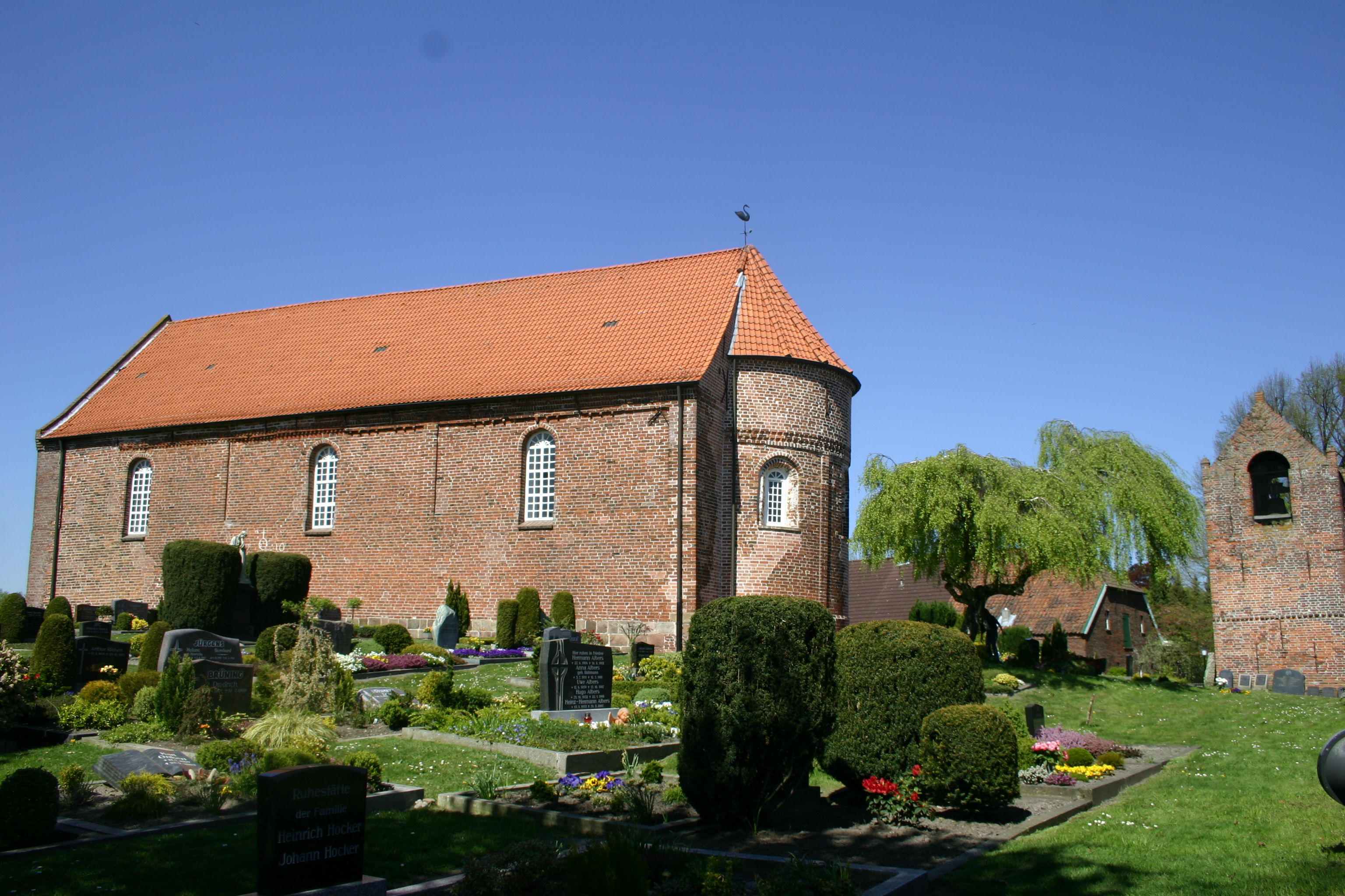 Historic church in Horsten, district of Wittmund, East Frisia, Germany